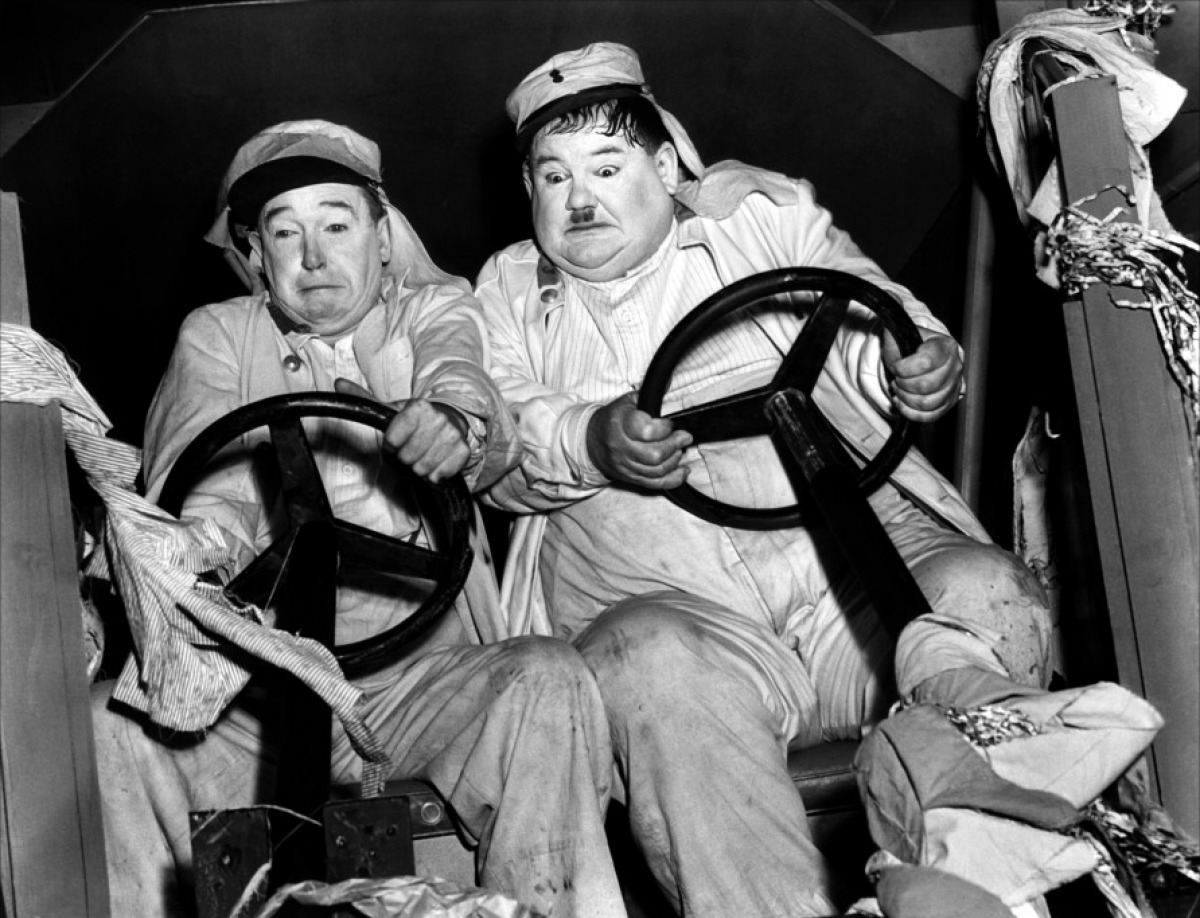 Laurel and Hardy in The Flying Deuces - cropped screenshot